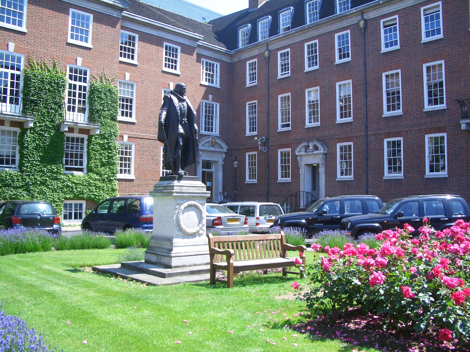 Gray's Inn